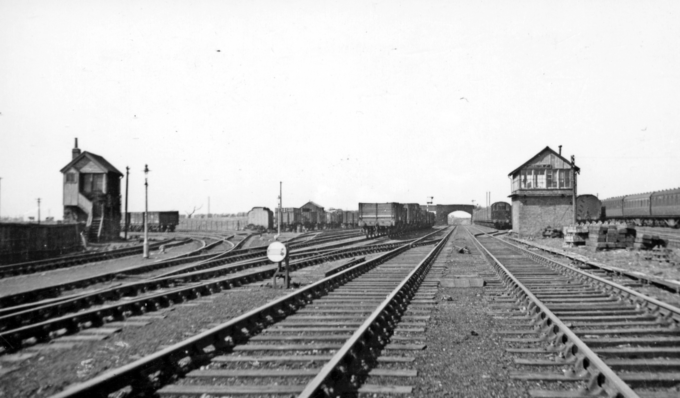 Former Cleator & Workington Junction Railway at Harrington Junction, 1951This is a puzzling photograph, taken in April 1951 when the Railway was still open for goods and mineral traffic (until about 1963) although passenger services had ceased in 1932. It is difficult to be quite certain about the location, but the shadows show that the direction must be northward, with the former High Harrington station (closed 4/4/31 to passengers, 1/7/63 to goods) not far behind. As long as the many collieries, iron-mines, and iron- and steel-works remained active, the railways in West Cumberland were incredibly complex, belonging before the 1923 Grouping to a number of different Companies, apart from the principals (London & North Western, Furness and Maryport & Carlisle). It would seem that this is the main line of the C.& W.J.R., looking towards Workington Central, with the branches to Harrington Harbour and to the Derwent and Moss Bay Iron Works turning off to the left. [?].